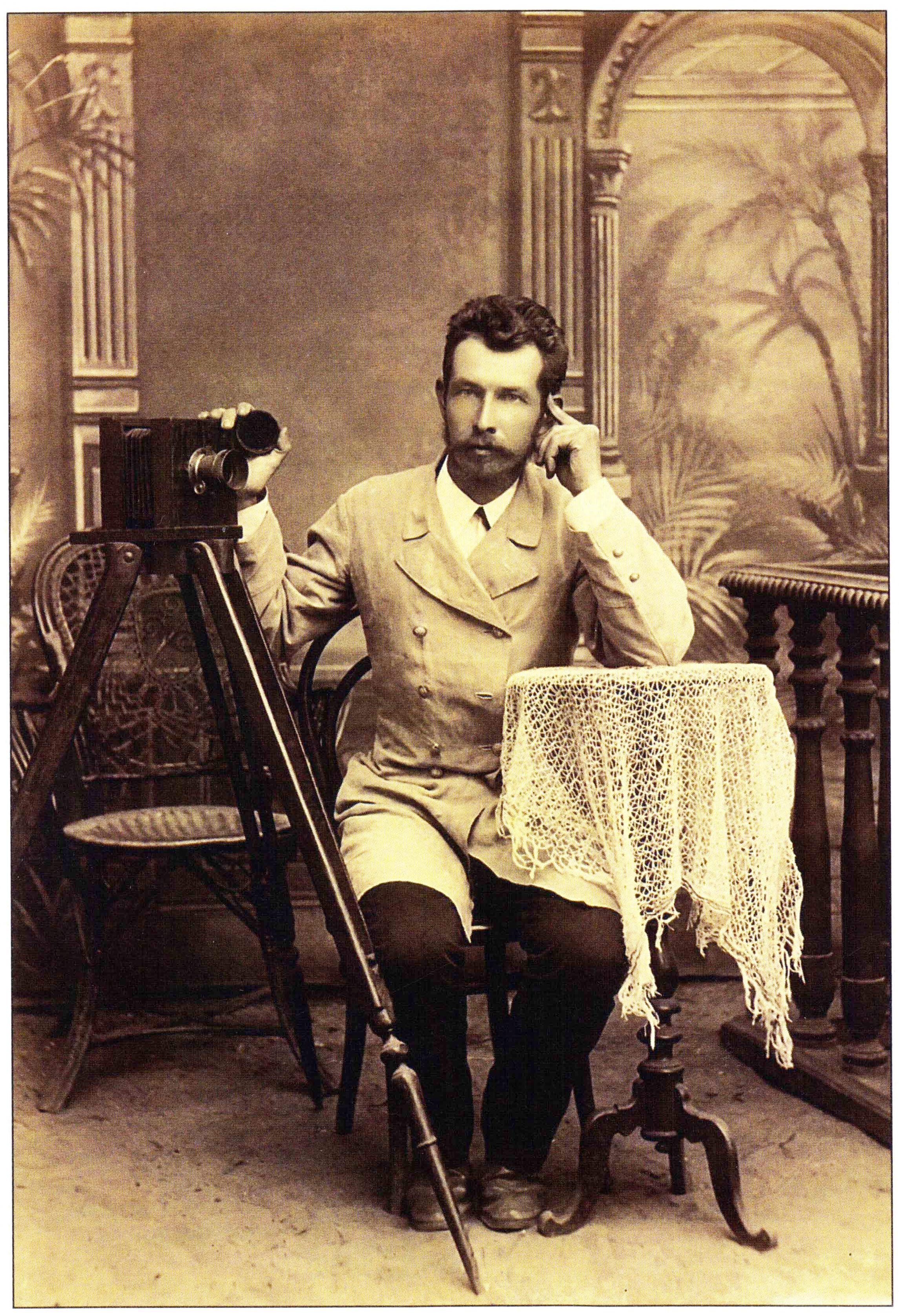 Russian photographer Bykovsky R.F. Self-portrait. Kharkov City.